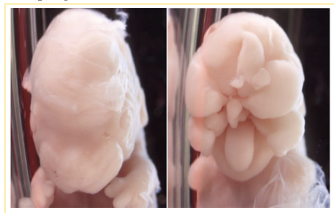 Picture credits to the Potter Lab at Cincinnati Children's Hospital. The left plane depicts a wildtype (normal) mouse embryo, and the right plane is a genetically edited mouse that lacks the gene Sp8. Normal development proceeded in the wildtype, but the Sp8 mutant lacked facial structure yet presented a tongue and a mandible.